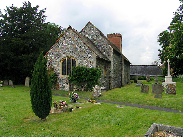 Church of England parish church of St Frideswide, Frilsham, Berkshire